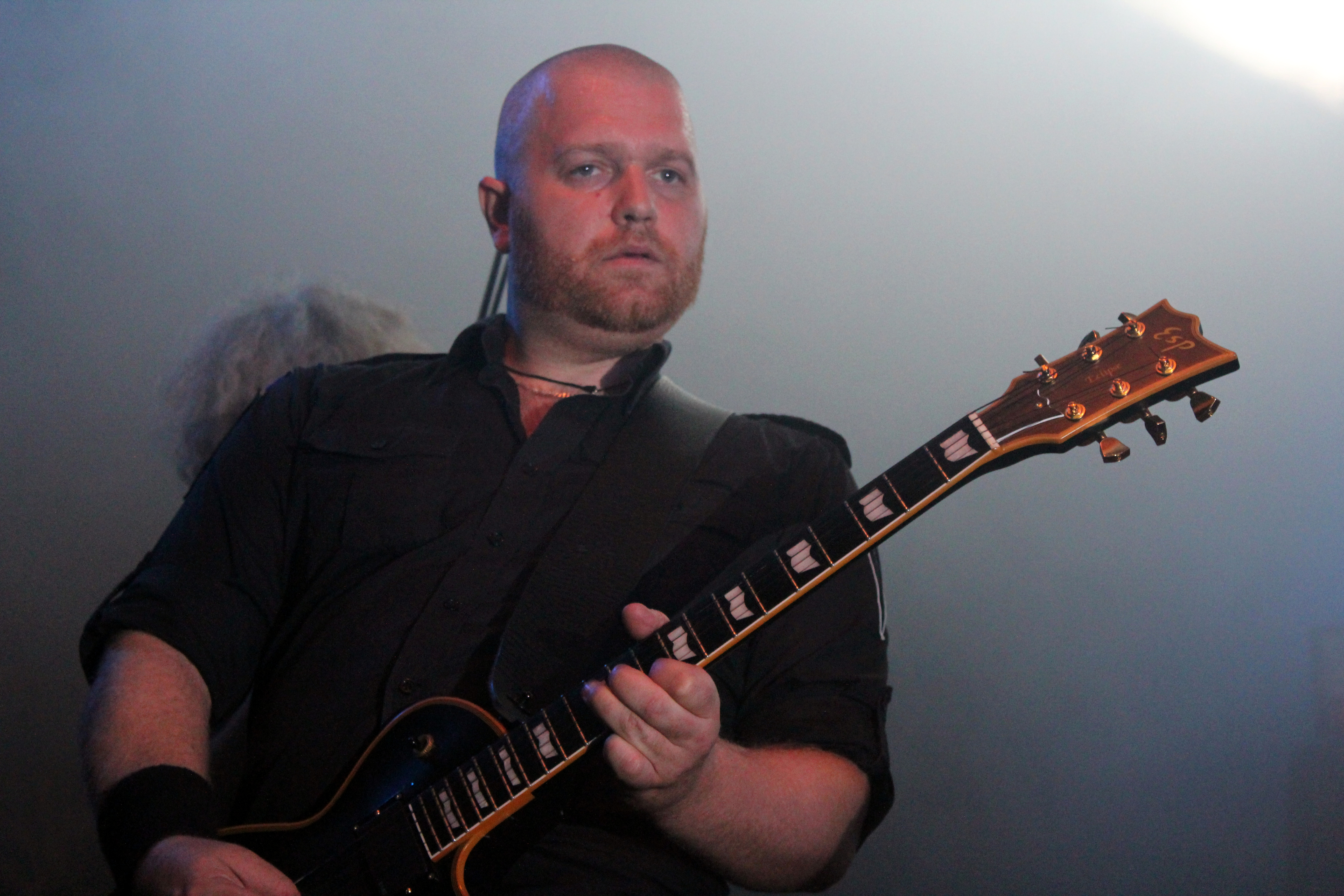 Jonas Almqvist, guitarist of "Månegarm", live at the Ragnarök-Festival 2011